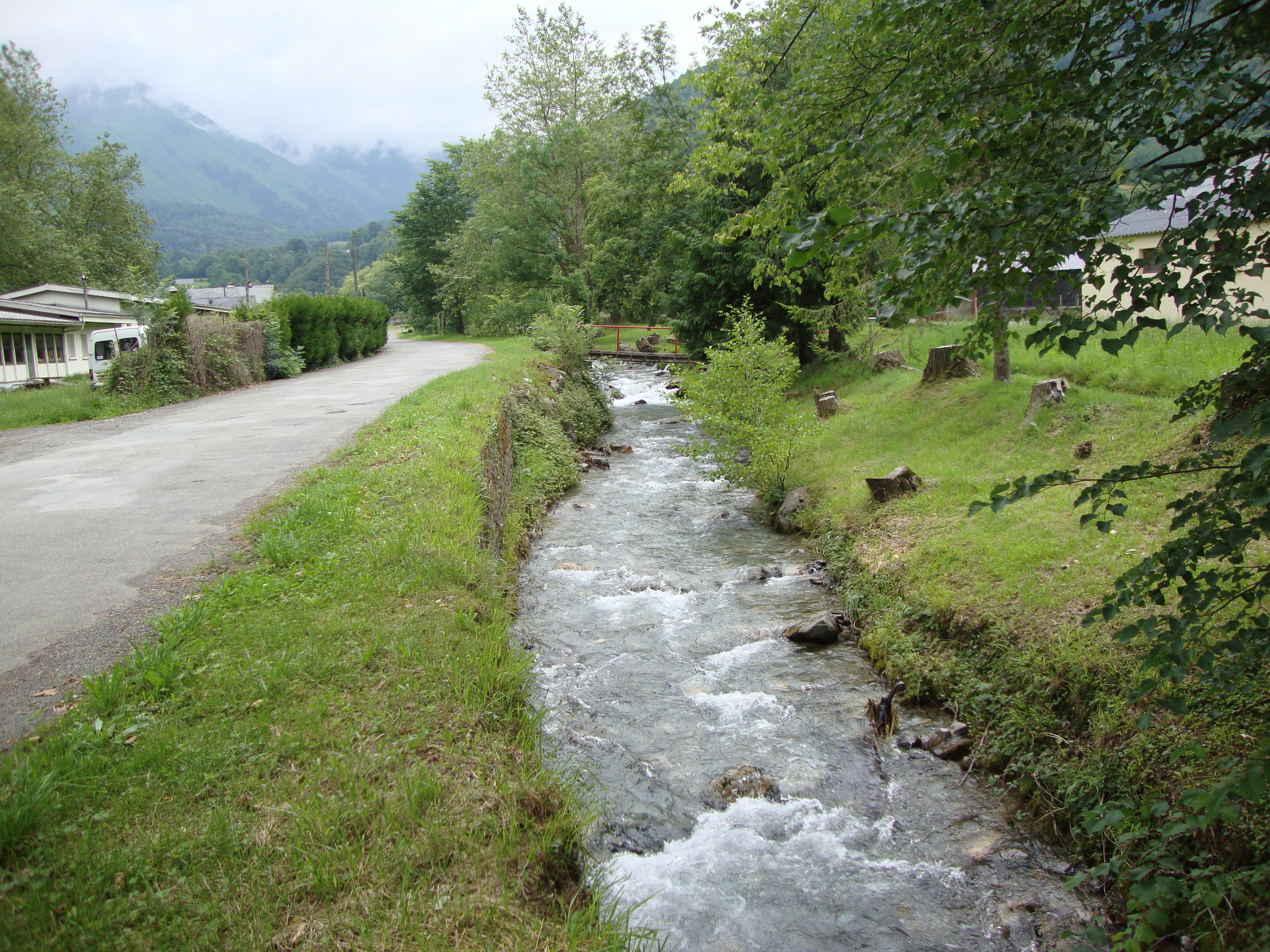 Accous (Pyr-Atl, Fr) Berthe, a small river.